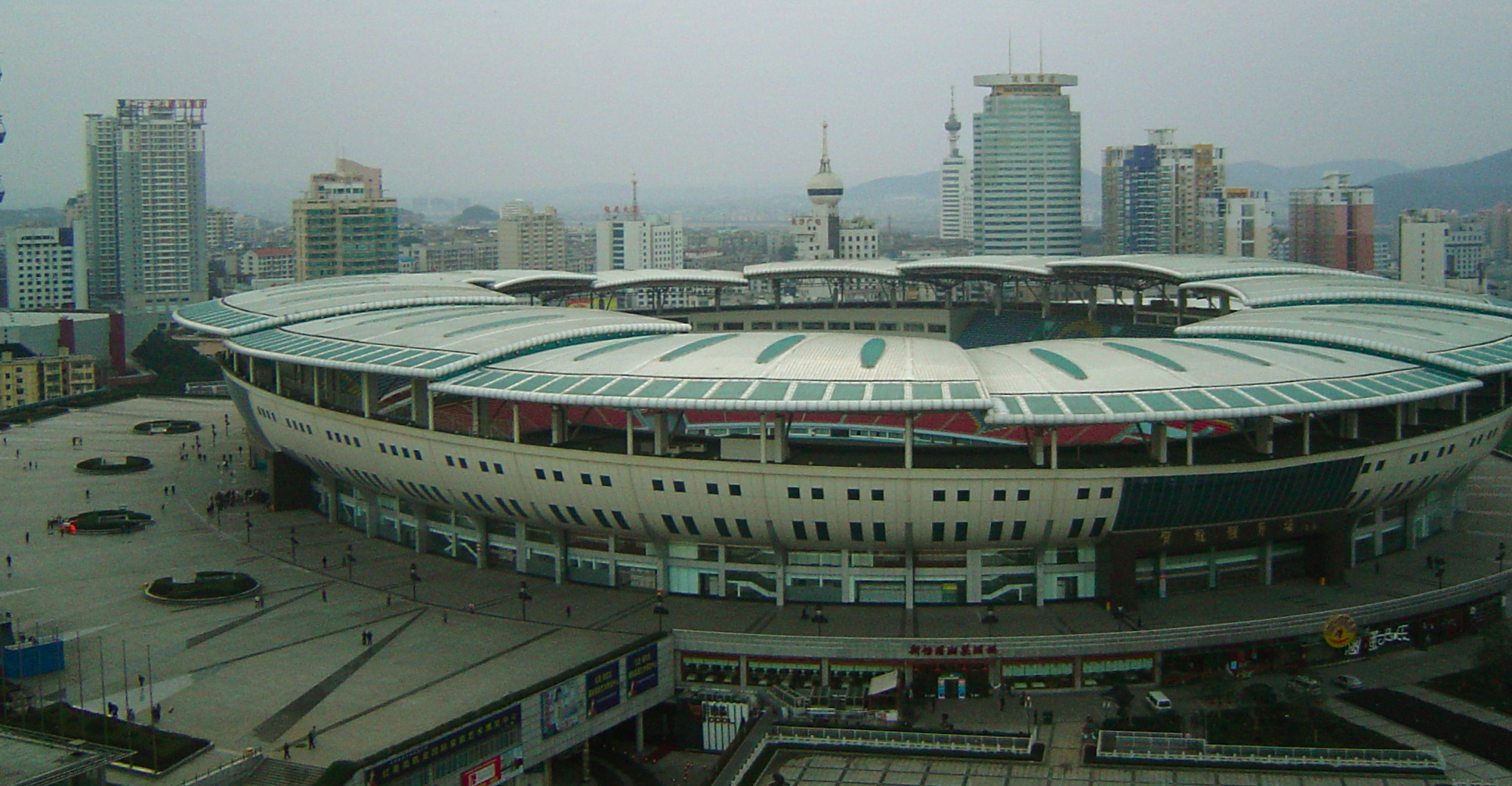 Helong Stadium in Changsha, China